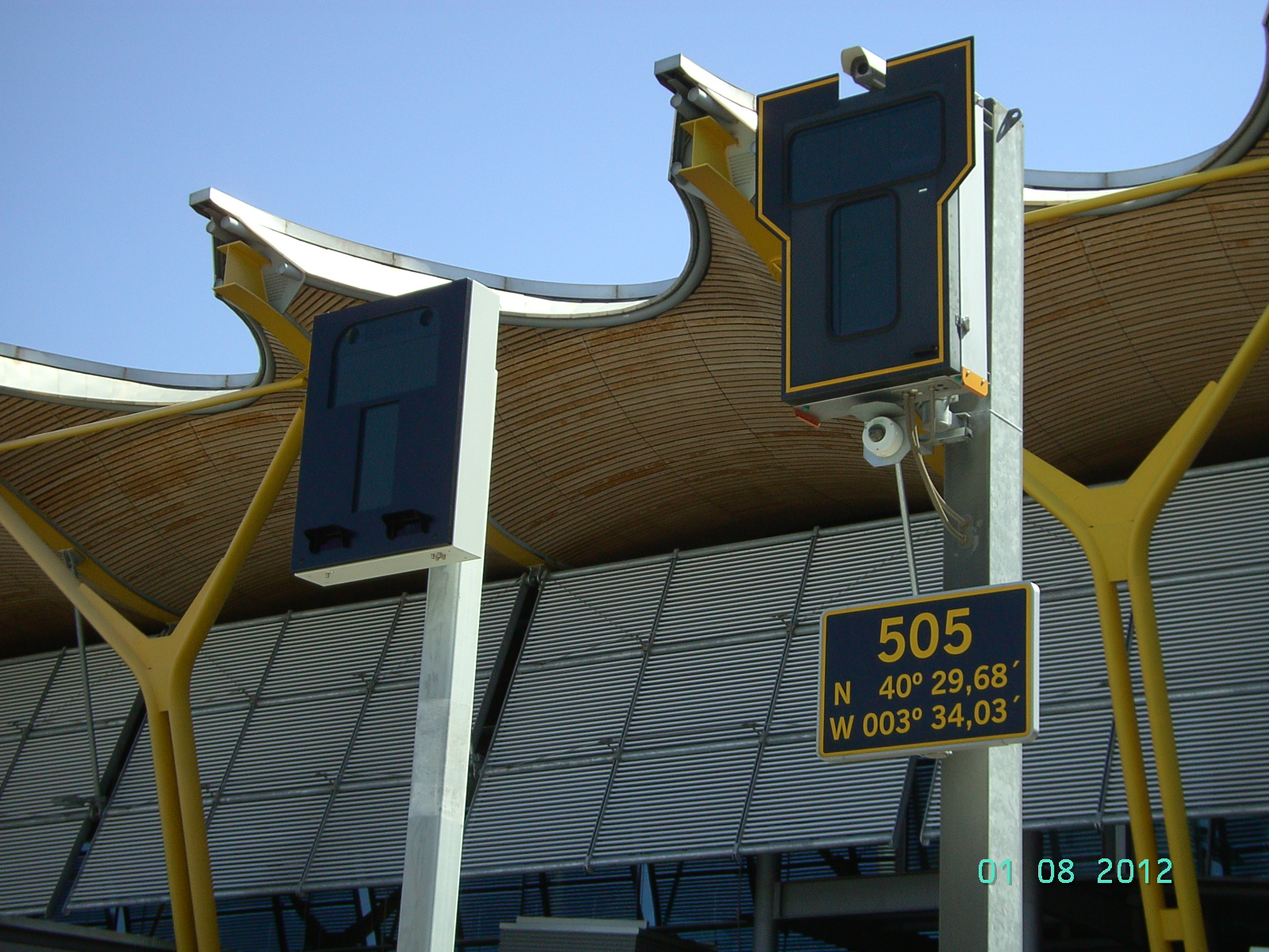 Chennai A-VDGS installation